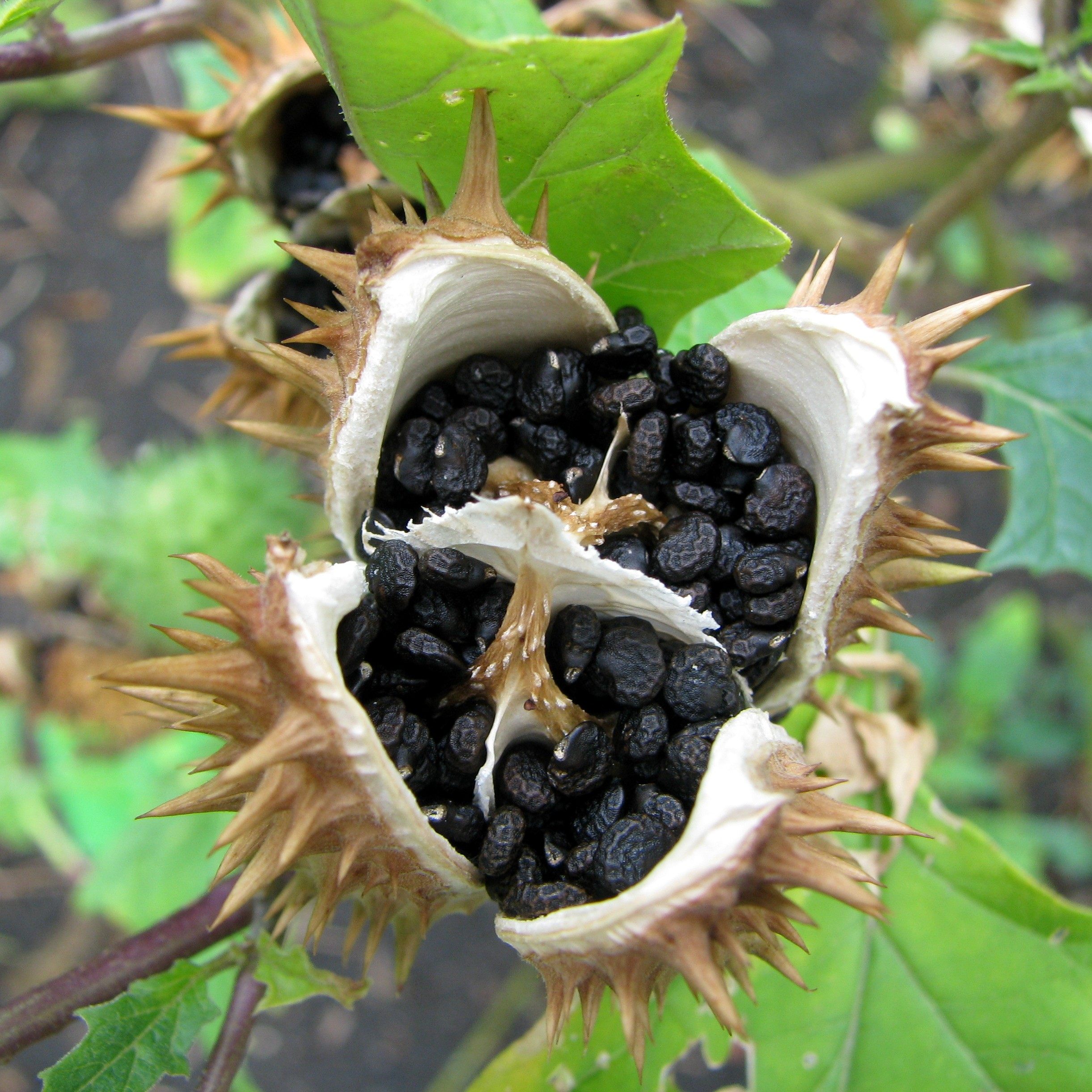 Jimsonweed Datura stramonium open fruit with seeds, plant cultivated in Wrocław University Botanical Garden, Wroclaw, Poland.